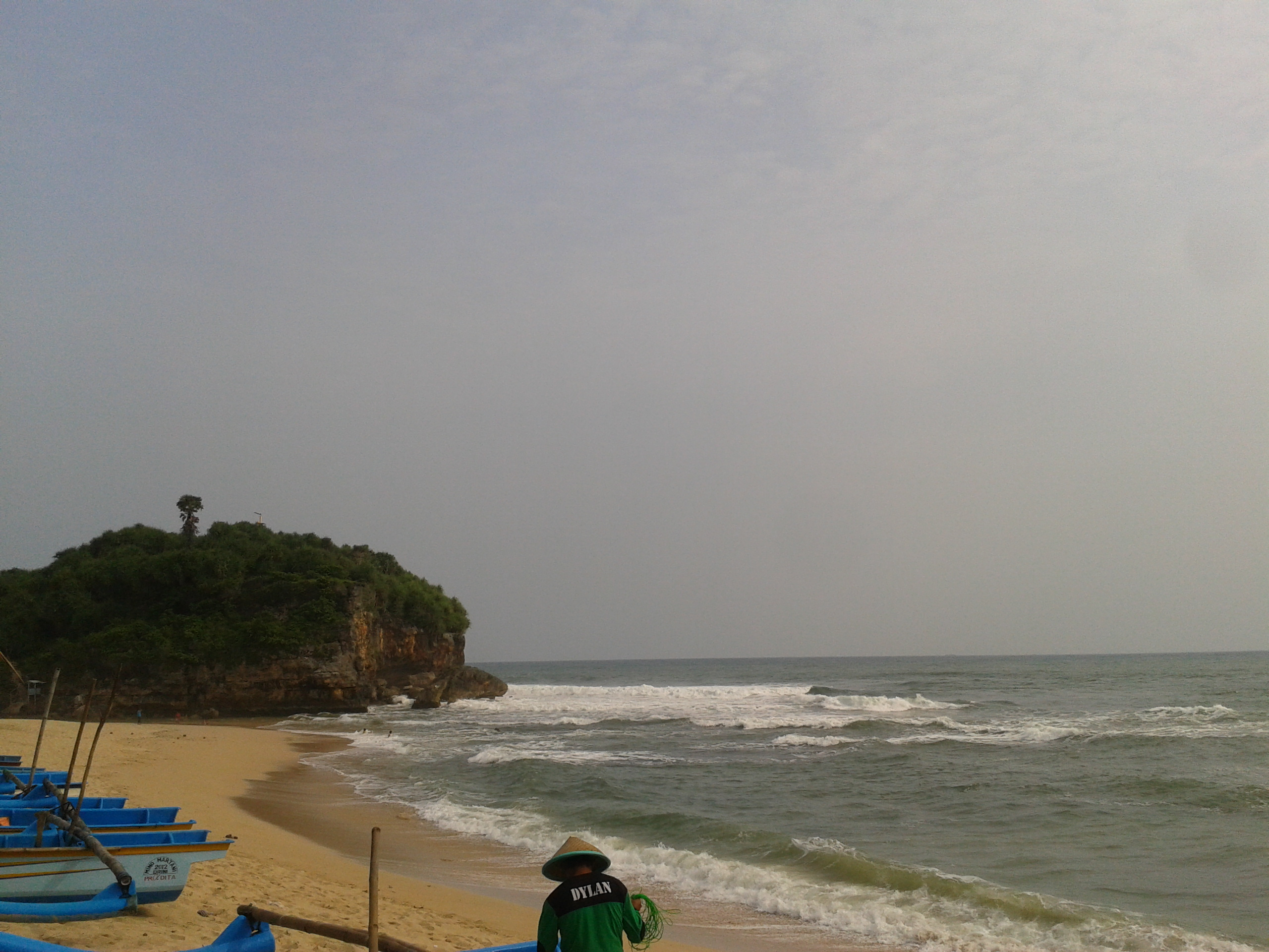 Another beach in Gunung Kidul Regency